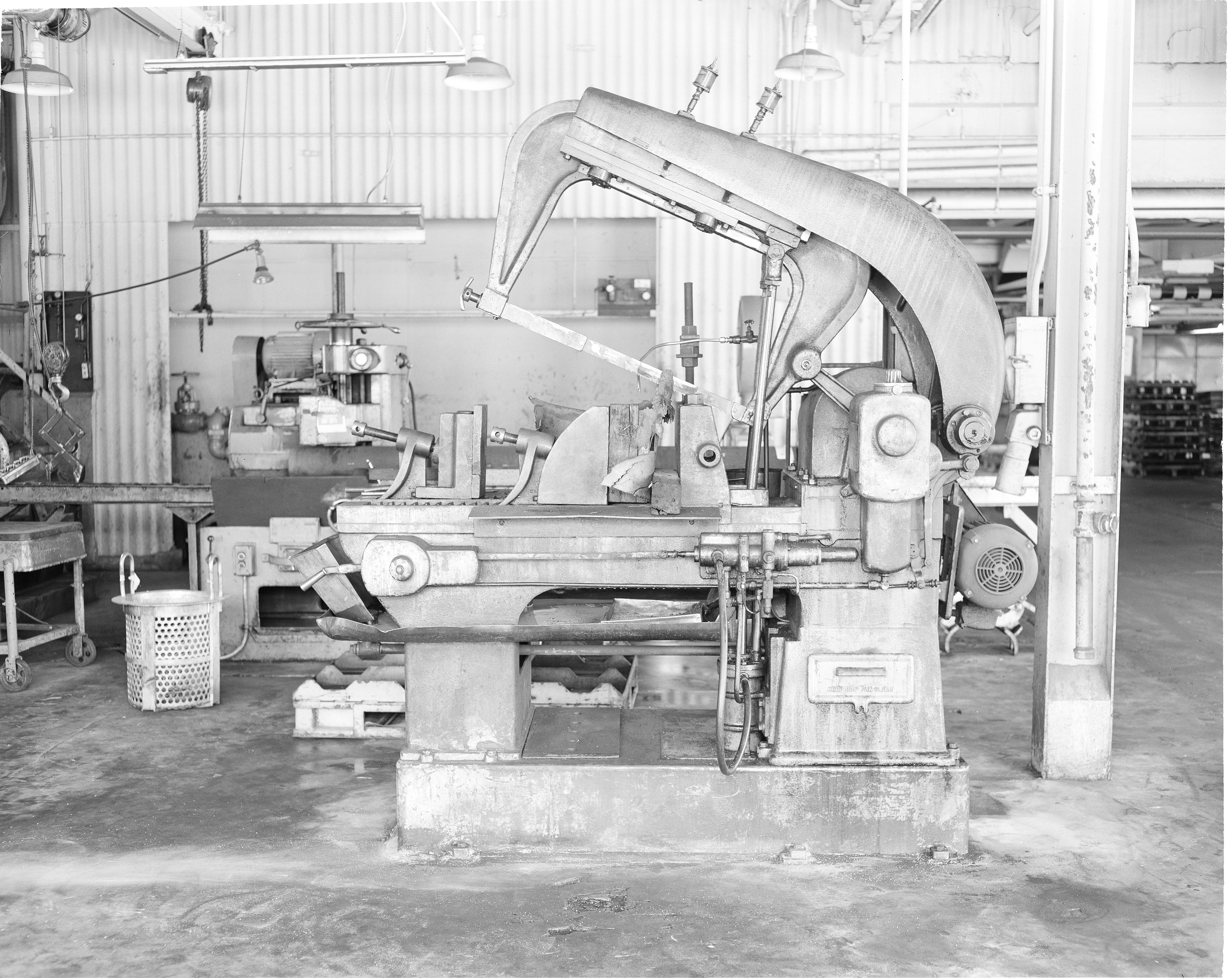 HACKSAW FOR CUTTING URANIUM METAL INTO SECTIONS IN PLANT 5, THE METALS PRODUCTION PLANT For more information or additional images, please contact 202-586-5251.